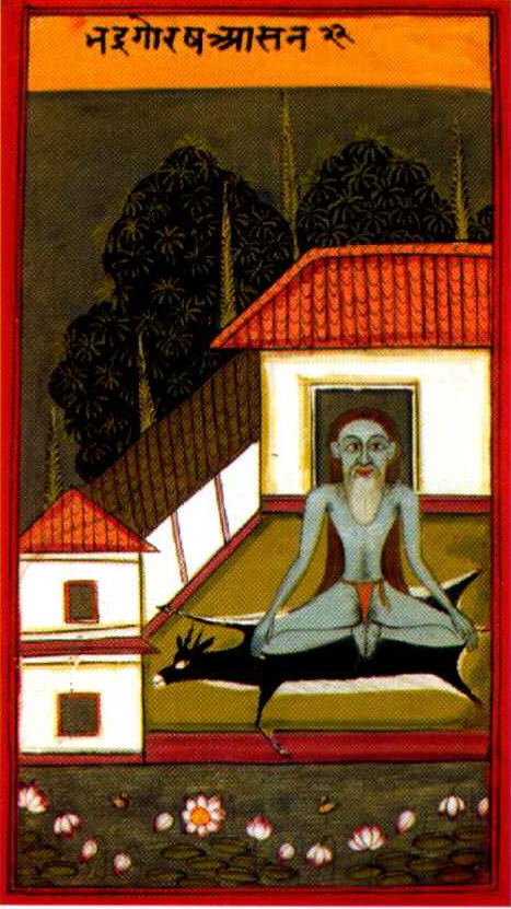 Illustration of Bhadragorakhasana (Gorakshasana) yoga pose from manuscript of, 1830.